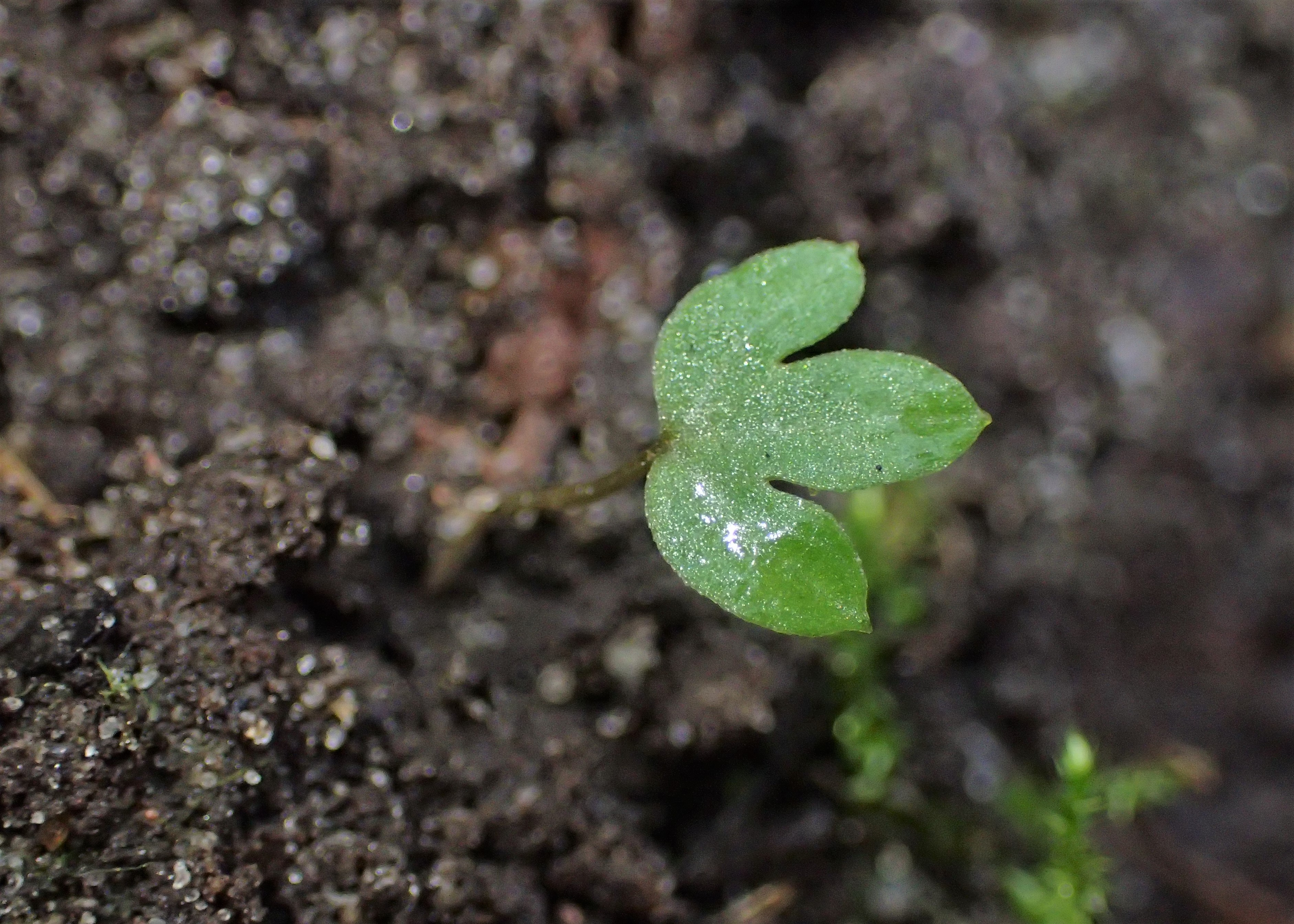 Adoxa moschatellina young plant. Kamieniec near Szczecin, NW Poland